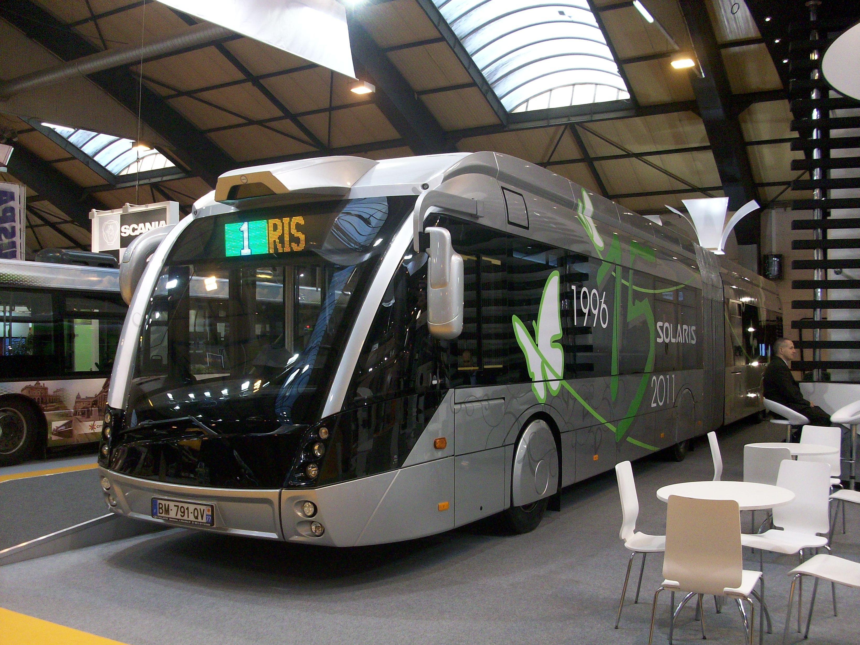 Solaris Urbino 18 Hybrid MetroStyle bus prototype (reg. BM-791-QV) in Strasbourg, France. Built 2010. Testing in Bus àHaut Niveau de Service (BHNS) in Paris. 23rd National Meeting of Public Transport.